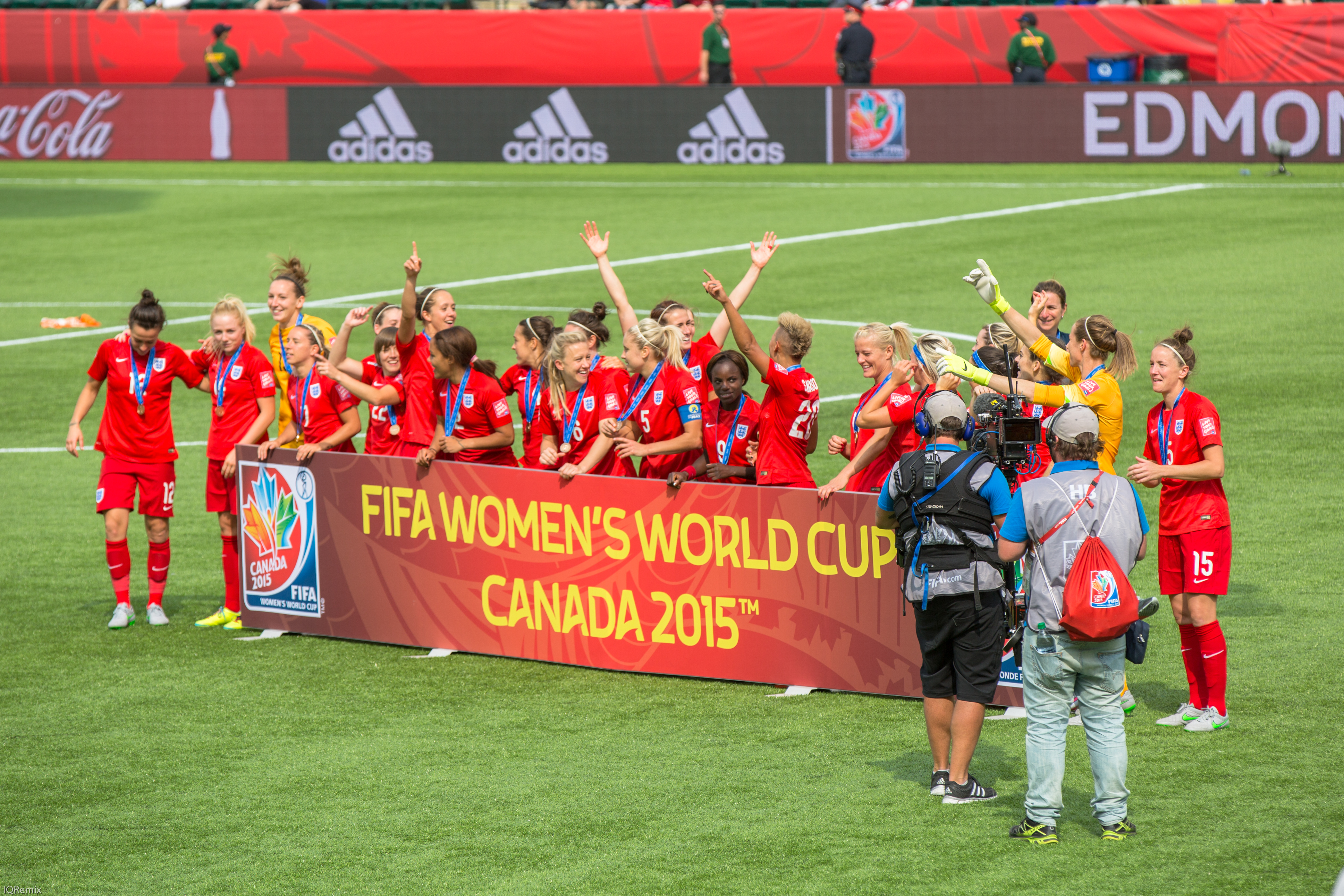 The 2015 FIFA Women's World Cup is the seventh FIFA Women's World Cup, the quadrennial international women's football world championship tournament. The tournament will be held from 6 June to 5 July 2015. England vs Germany (Bronze Medal Match) Match Highlights